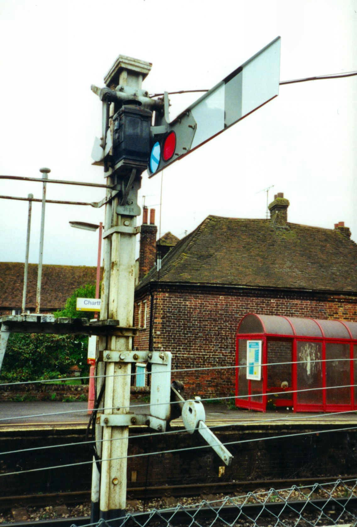 A semaphore signal on the former British Rail Southern Region.